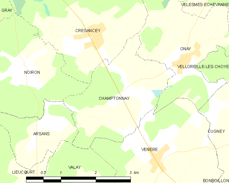 Map of French municipality